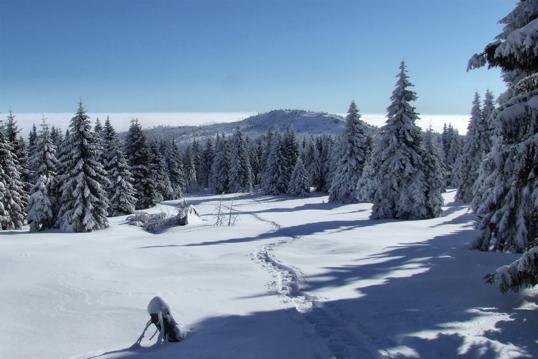 Ore Mountains: Meluzína and Křížová hora from Macecha